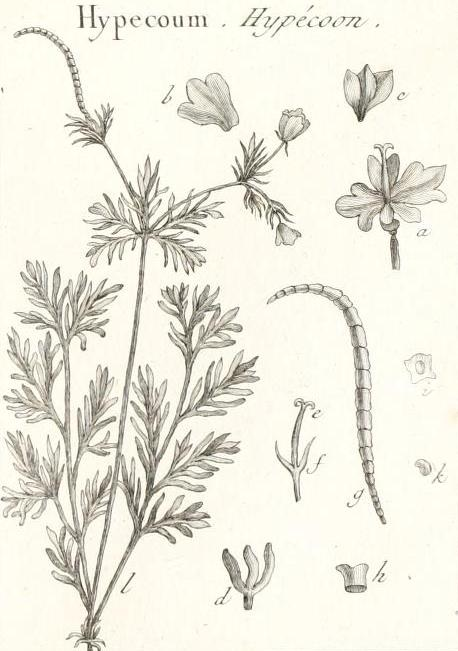 Illustration of Hypecoum